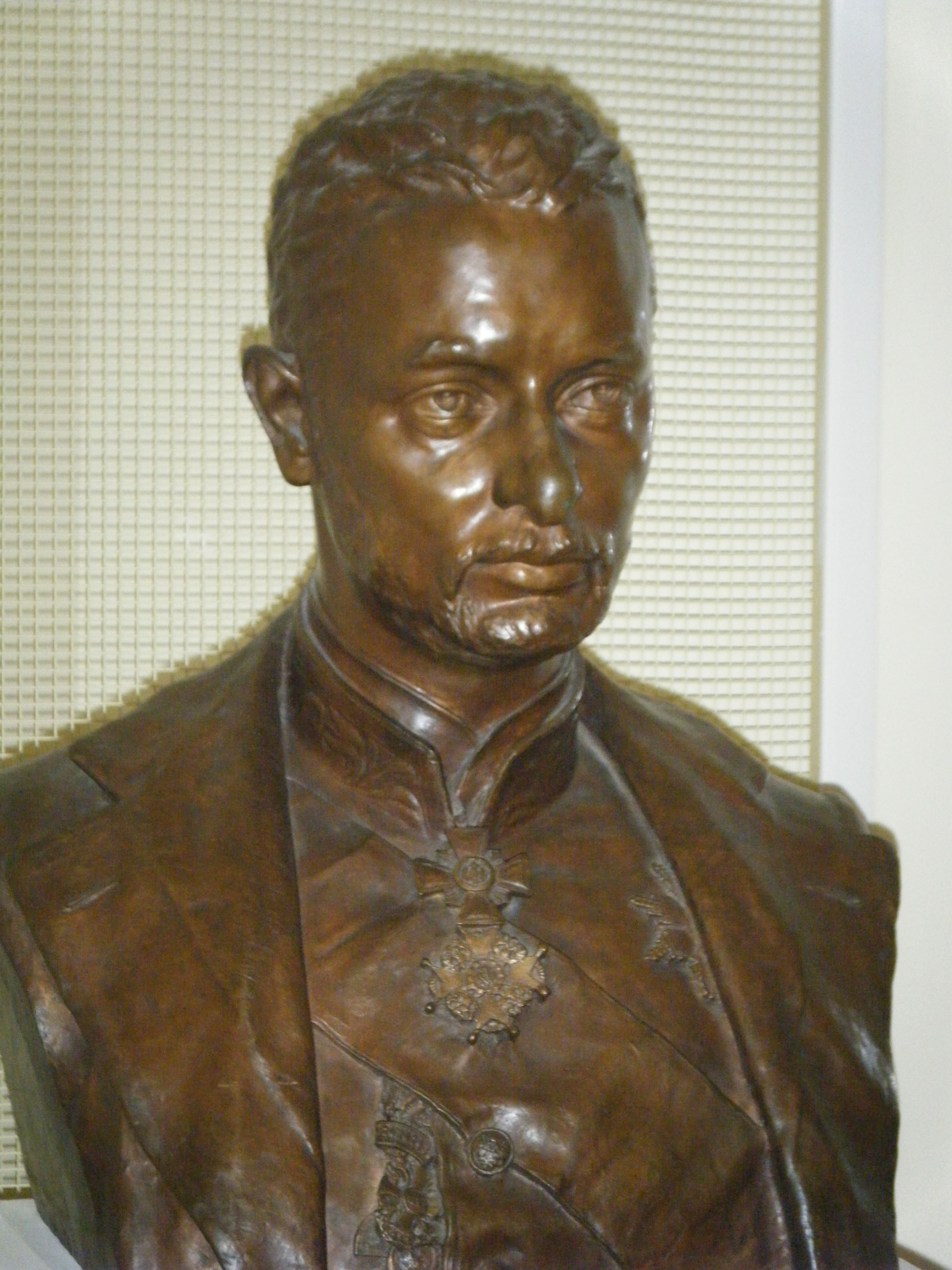 Samuil Solmonovich Polyakov 1837-1888, bronze sculpture 1878 in State Historical Museum, Moscow